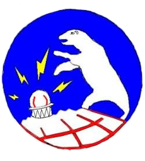 Emblem of the 748th Aircraft Control and Warning Squadron